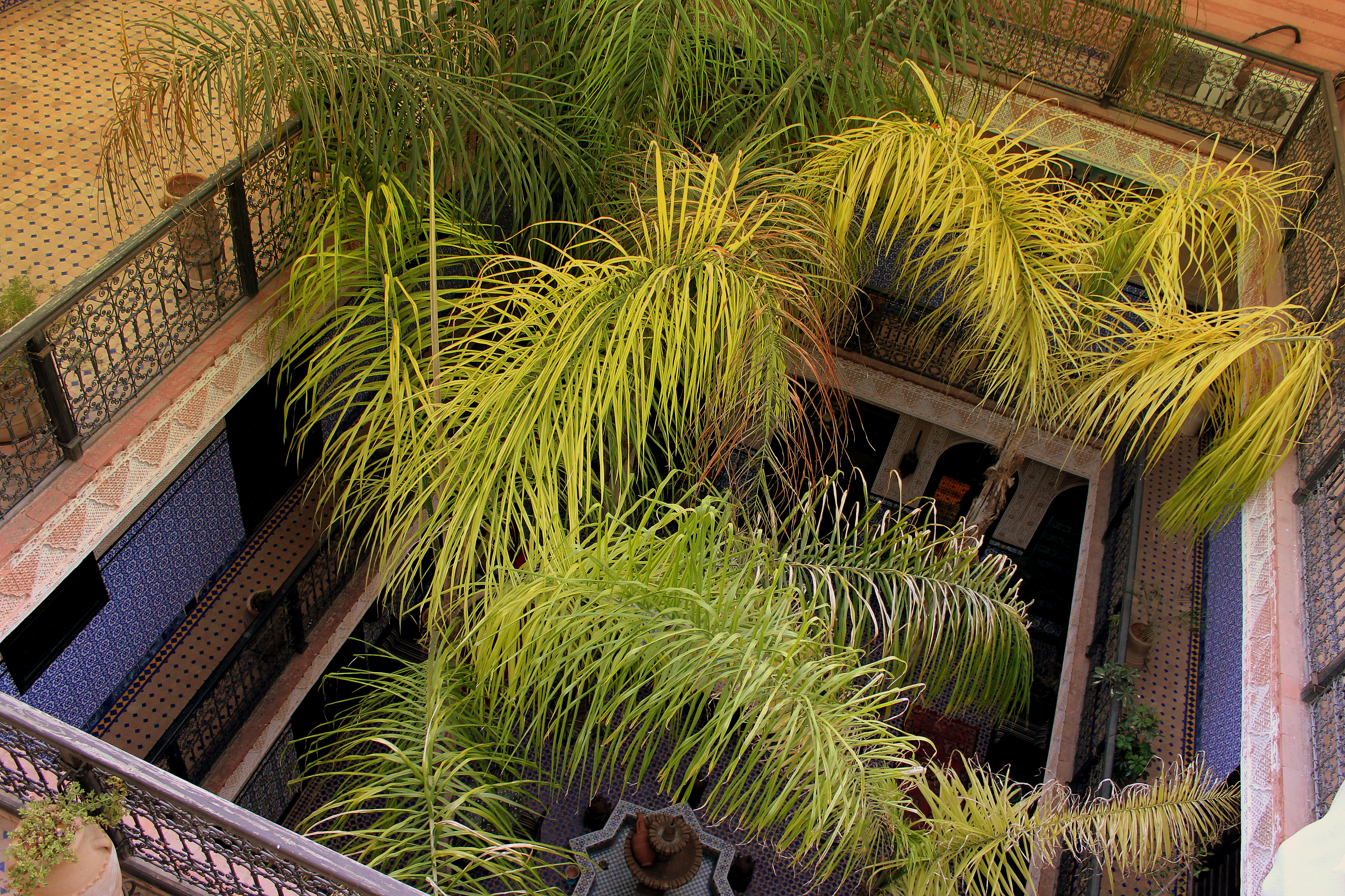 RIAD LALLA KHITI MARRAKECH MOROCCO APRIL 2013